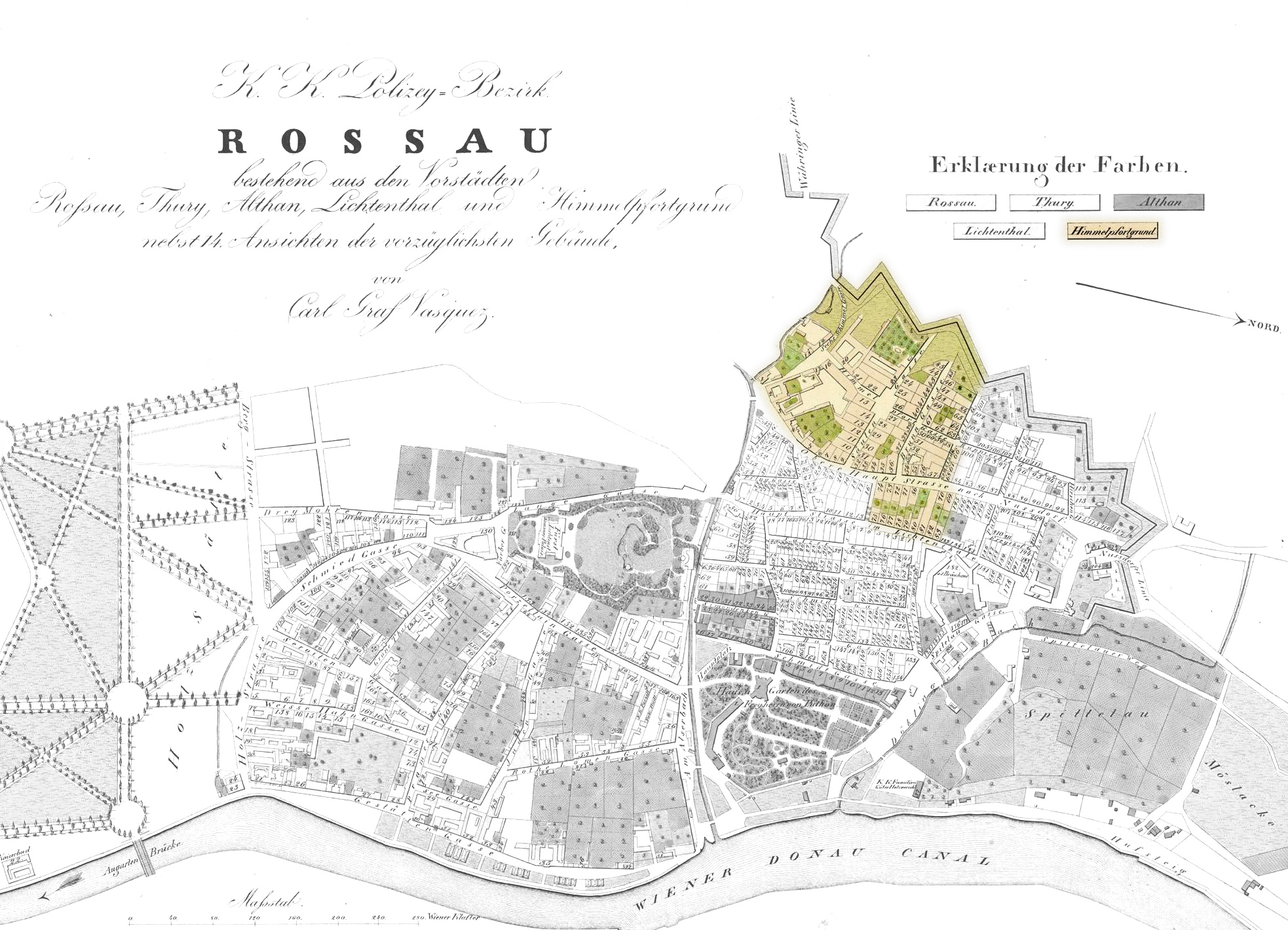 Map of Vienna / Himmelpfortgrund, approx. 1830